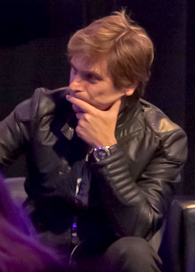 Roger Taylor during Duran Duran interview at the South by Southwest 2011 music festival. (Cropped from larger photo).